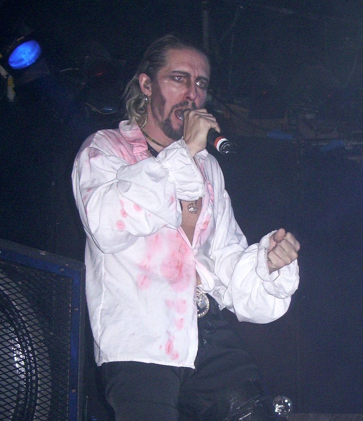 Thomas Vikström of Therion at The Fridge in London, 16th December 2007.jpg